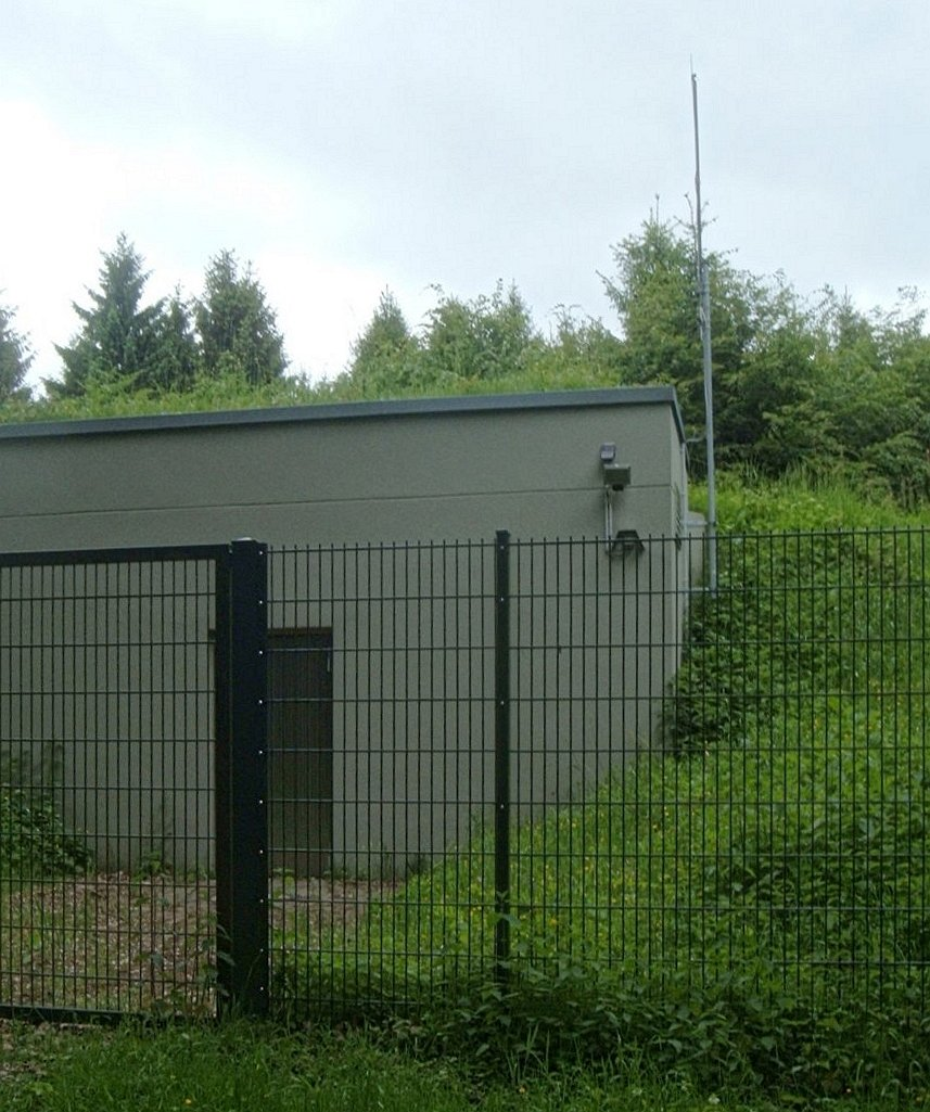 Elevated water tank on Lüderich summit (260.2m)